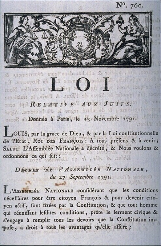 Royal decree proclaiming the emancipation of the Jews, France, 1791 - Musée d'art et d'histoire du Judaïsme